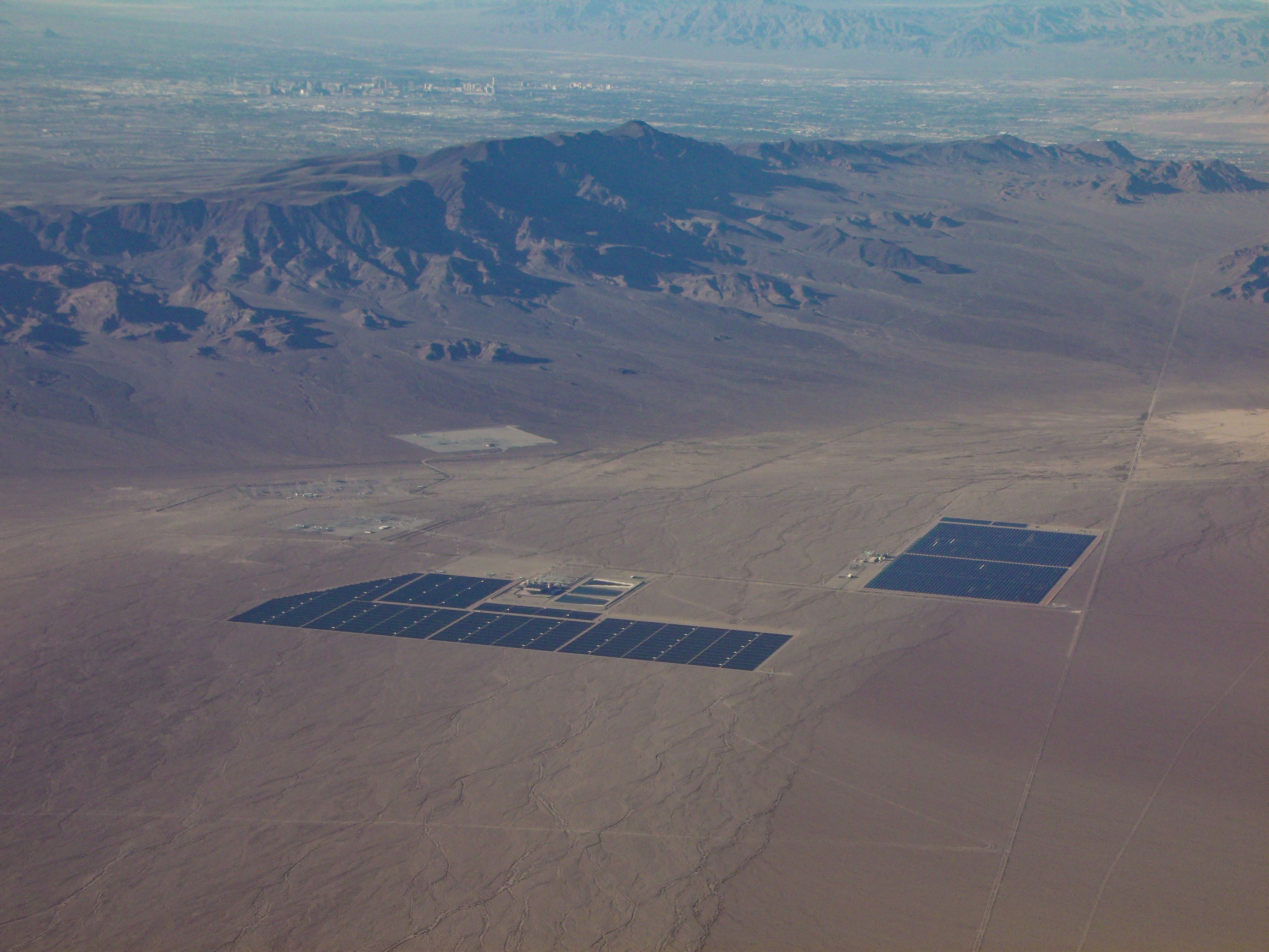 A photograph of Nevada Solar One (at right), and Copper Mountain Solar 1 (at left): taken from a commercial jetliner in Fall 2011.